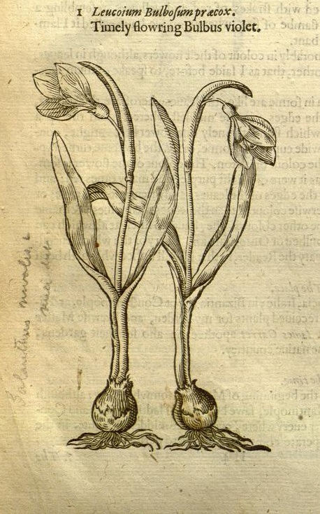 Illustration of Galanthus nivalis by John Gerard